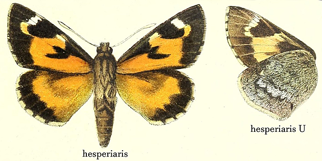 Original description image of butterfly species.